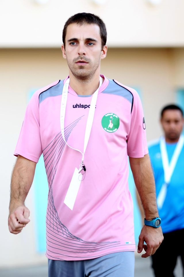 Manuel José Alves Ramos with Al Nahda Club of Oman before a match against Al-Oruba Club of Sur, Oman. 21 December 2013 Sur Sports Stadium, Sur, Oman Photographer email id